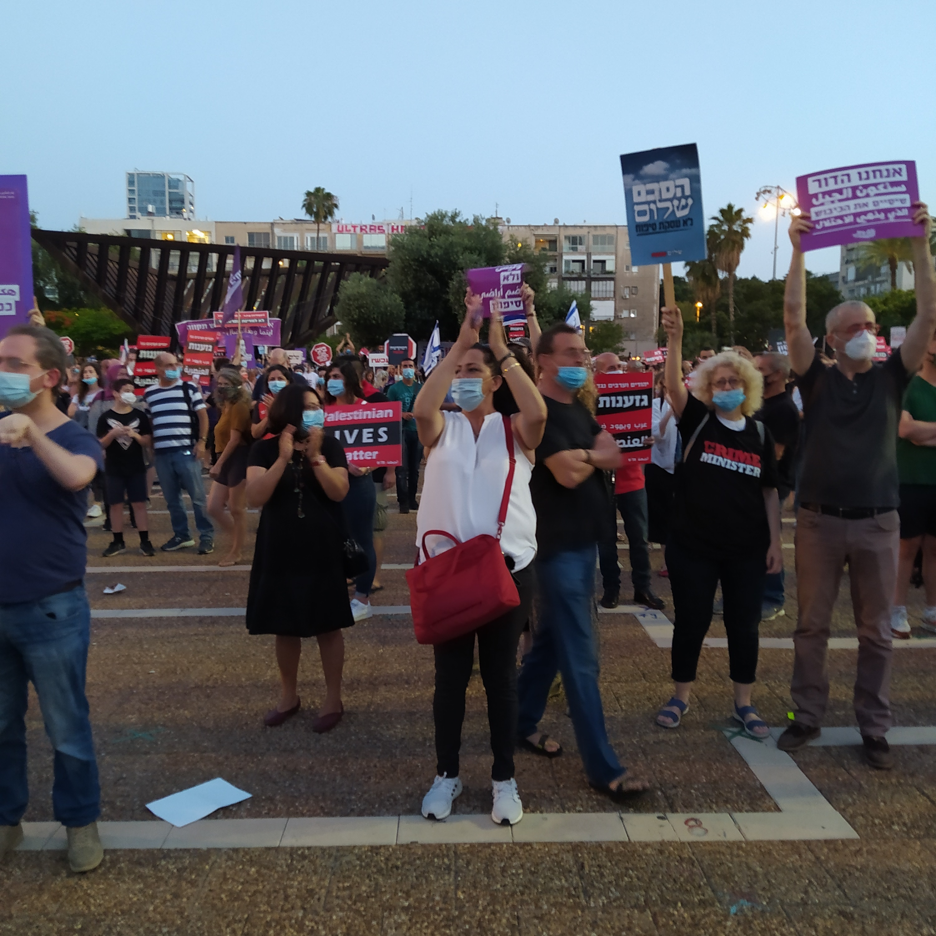 Demonstration against Israeli annexation of the West Bank, Rabin Rabin Square, Tel Aviv-Yaffo, June 6, 2020